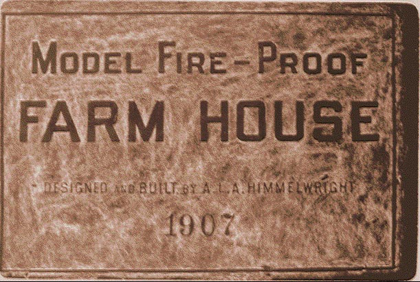 This is a photograph of a rubbing of a plaque that exist at the Model Fireproof Farmhouse built by A.L.A. Himmelwright now known as The Stone House at Rock Lodge